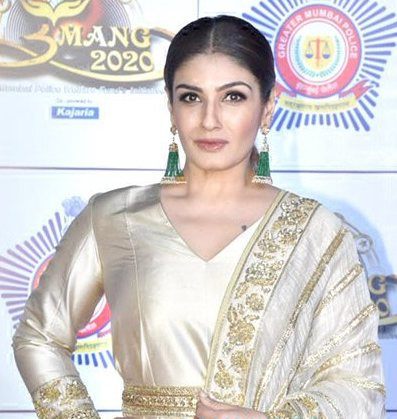 Actress Raveena Tandon in Umang 2020